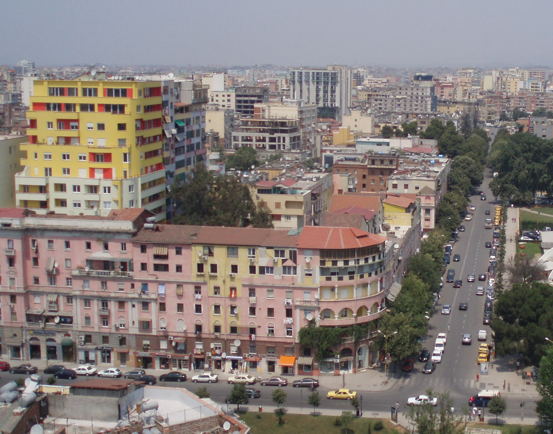 Tirana. View from Sky Tower.